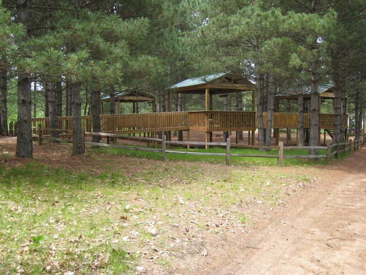 Eagles Nest program area at Camp Freeland Leslie 2010 looking north from showerhouse